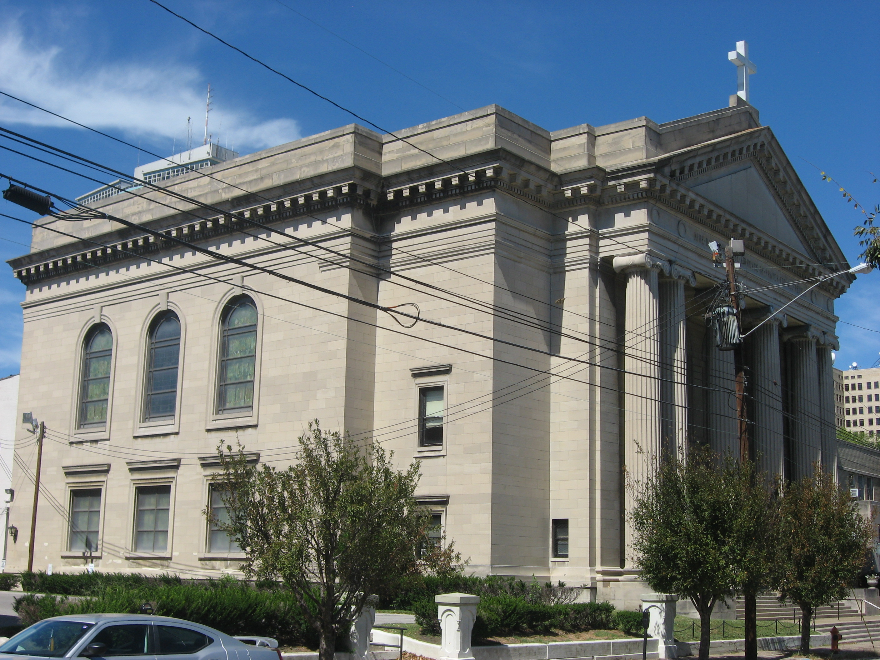 Southern side and front of the former Adath Israel Temple (now Greater Bethel Temple Apostolic Church), located at 834 S. Third Street in Louisville, Kentucky, United States. Built in 1905, it is listed on the National Register of Historic Places.